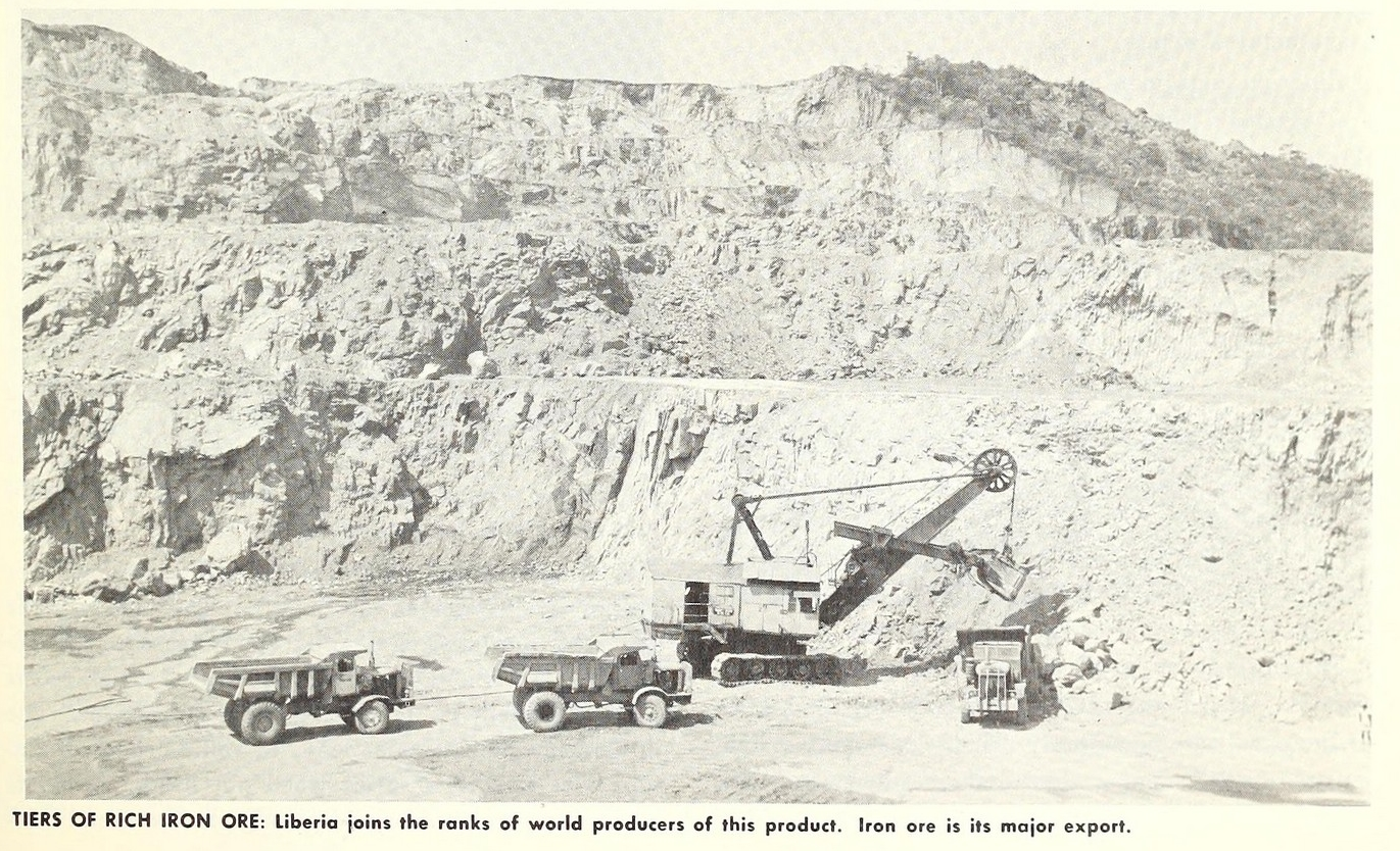 Book illustration from: A market for U.S. products in Liberia